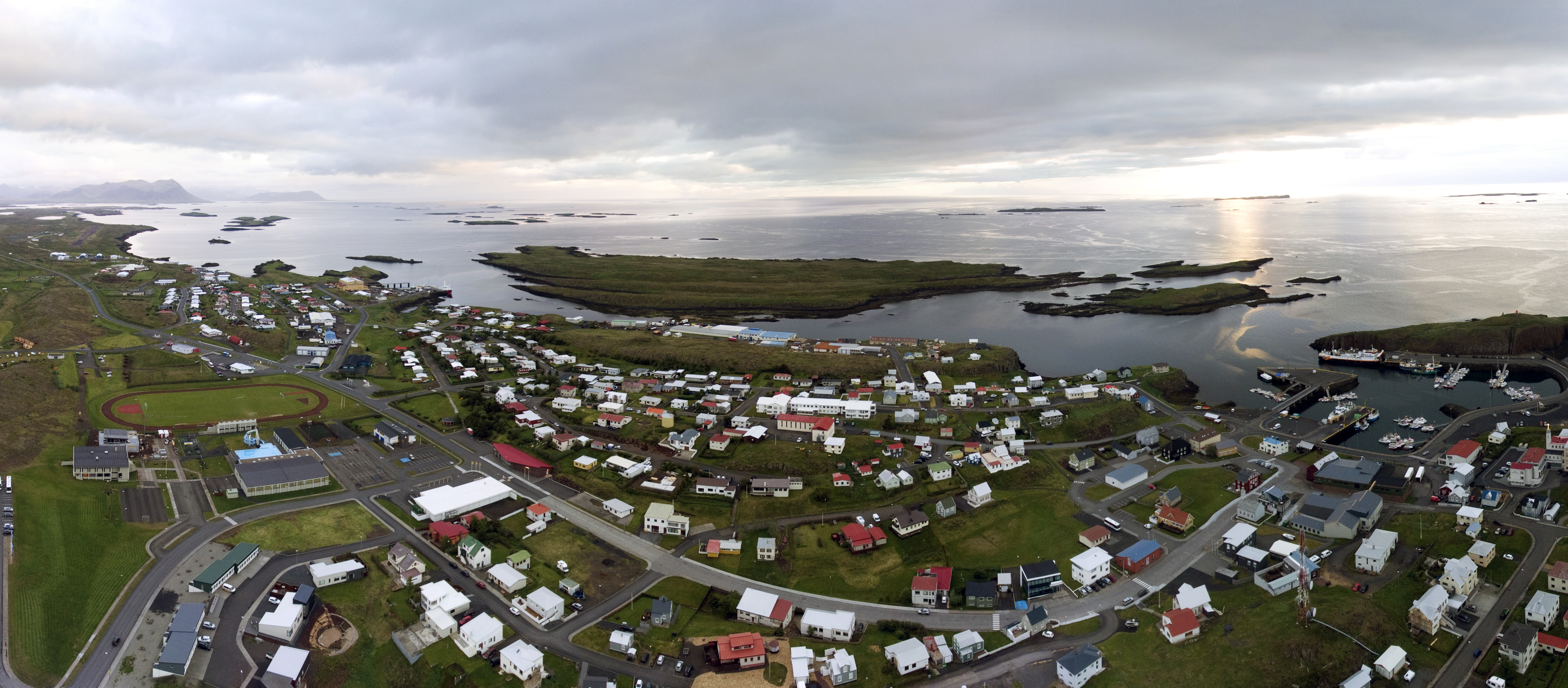 Stykkishólmur facing the coming midnight sun